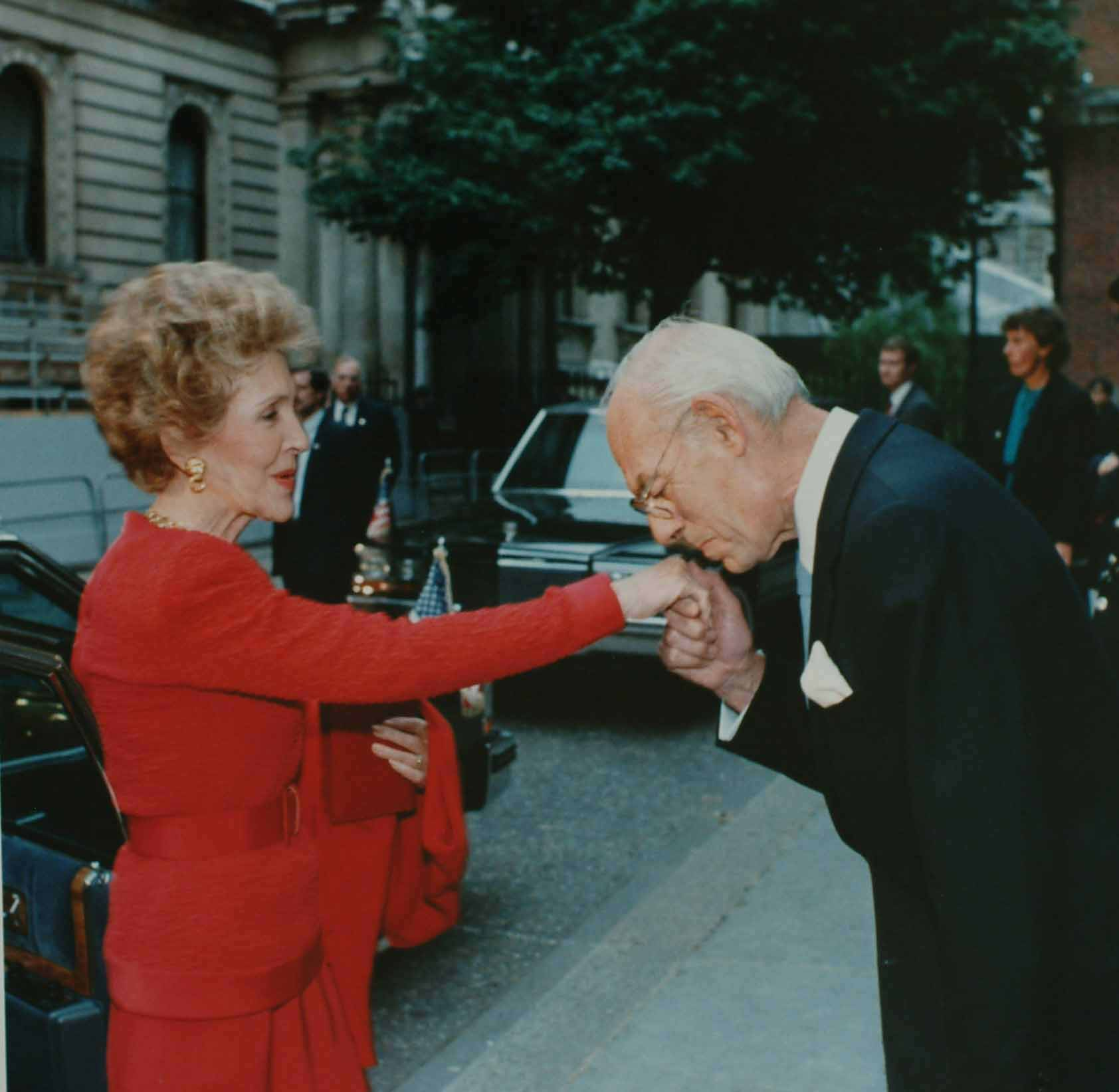 Denis Thatcher, husband of UK Prime Minister Margaret Thatcher, greets US First Lady Nancy Reagan, at No.10 Downing Street, June 2, 1988